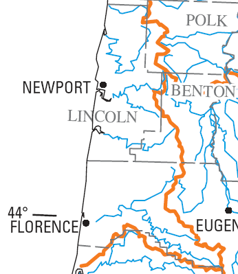 River drainage basins in Oregon, cropped to Central Oregon Coast Range